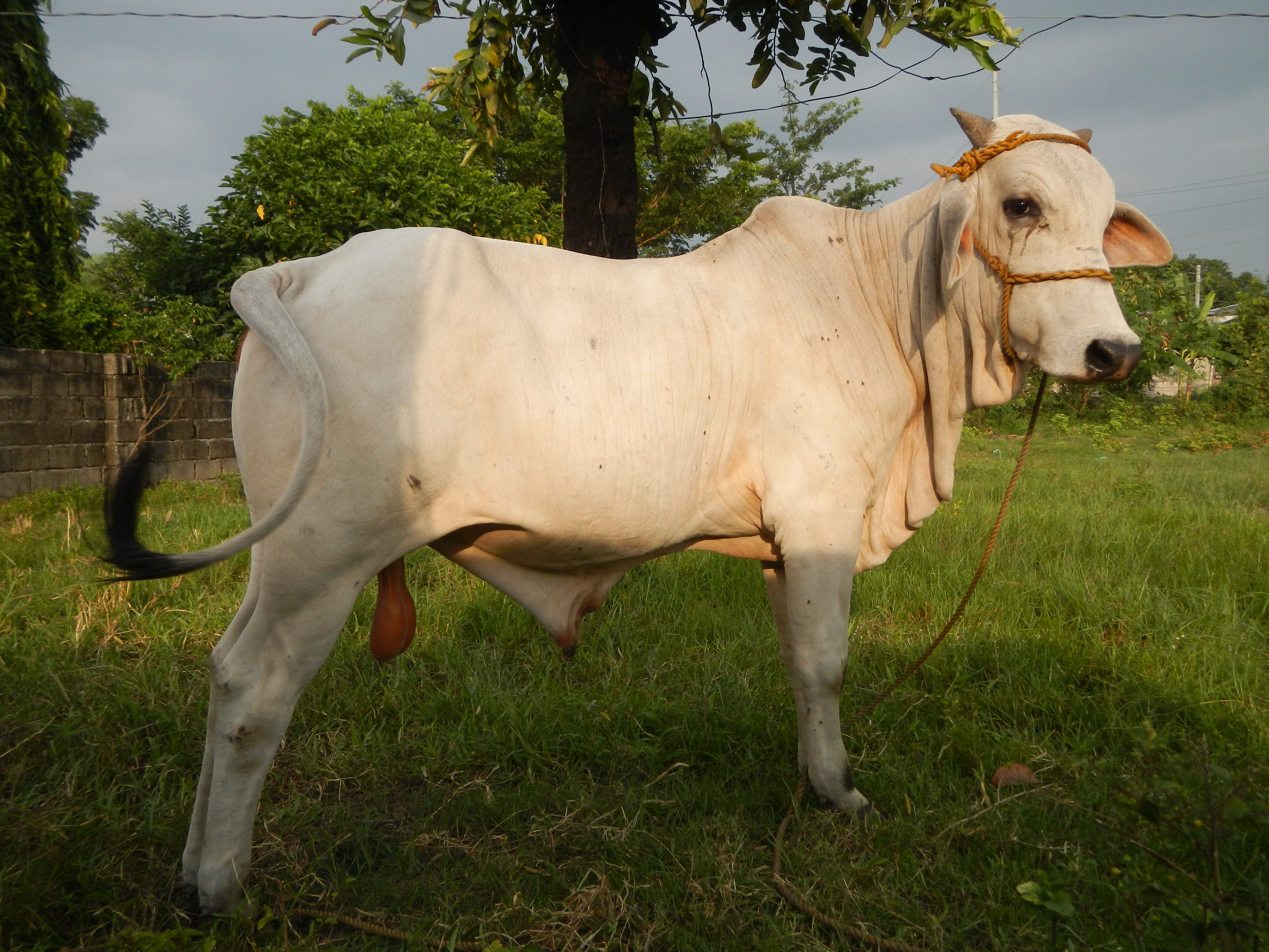 Barangay Barangay San Julian, beside Santa Maria, Moncada, Tarlac, Tarlac Province (along Paniqui, Anao and Moncada, Tarlac-Nampicuan, Nueva Ecija Arterial Road (Moncada, Tarlac section) and accessed from MacArthur Highway (Moncada, Tarlac section) of MacArthur Highway or Manila North Road, gateway to Anao, Tarlac both SCTex and TIPLex to NLEx).